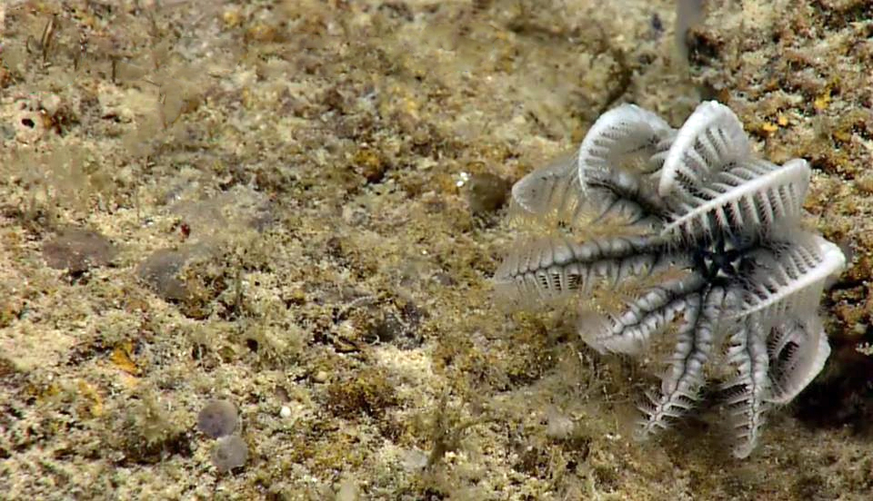 A crinoid of the genus Holopus, in the abyss off the coast of Porto Rico. Picture from NOAA expedition Okeanos Explorer 2015.